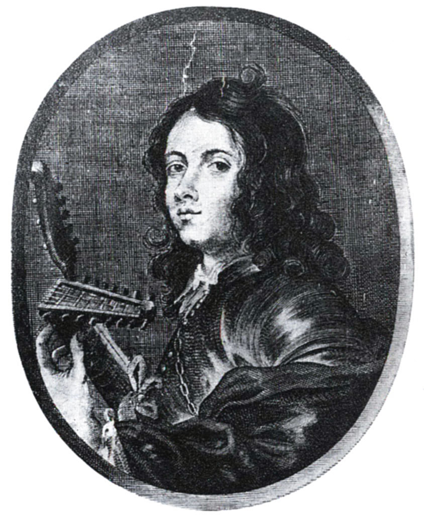 Portrait of Jacques de Saint-Luc (1616 - ca. 1710). Engraving (1641) by A. van der Does (after Gerard Segers).